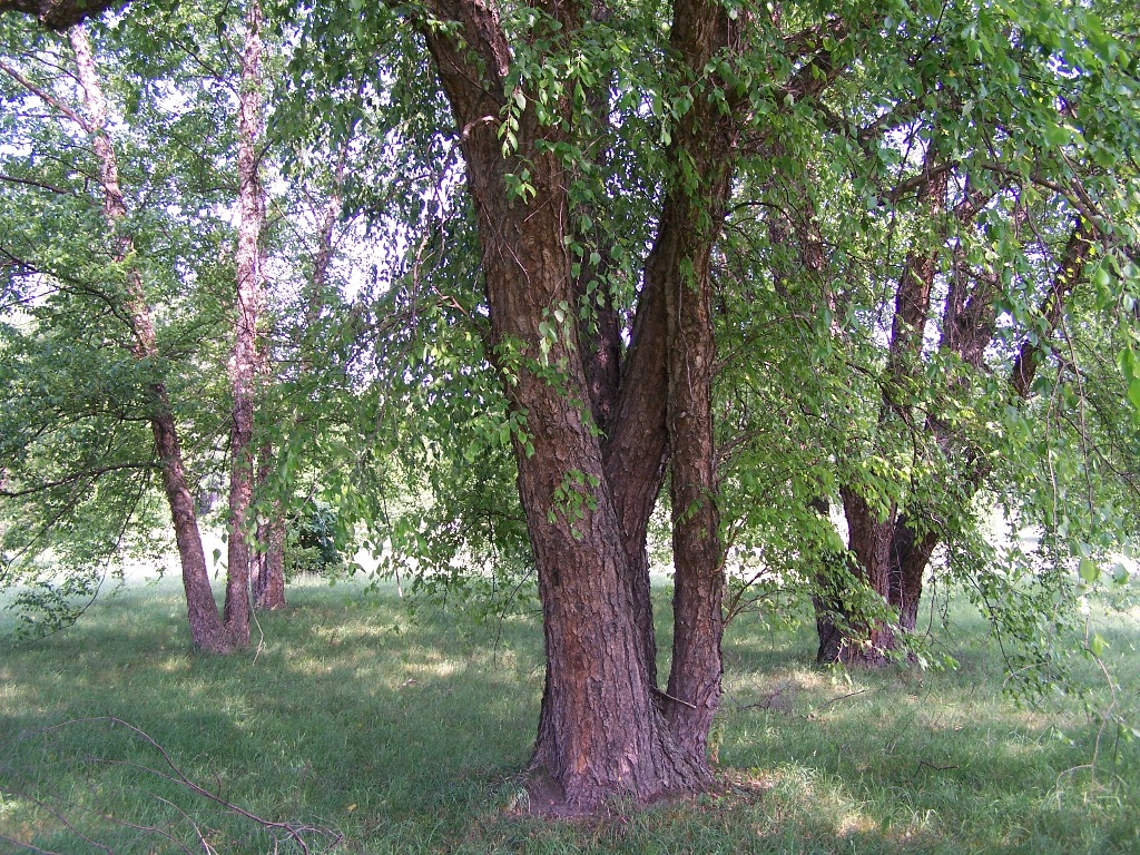 River birch trees, Betula nigra specimens at Morton Arboretum in northern Illinois.